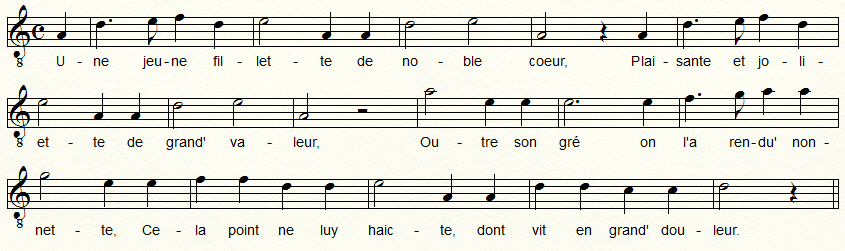 French folk song "Une jeune fillette". Version of 1576 transcribed by C. Frissard